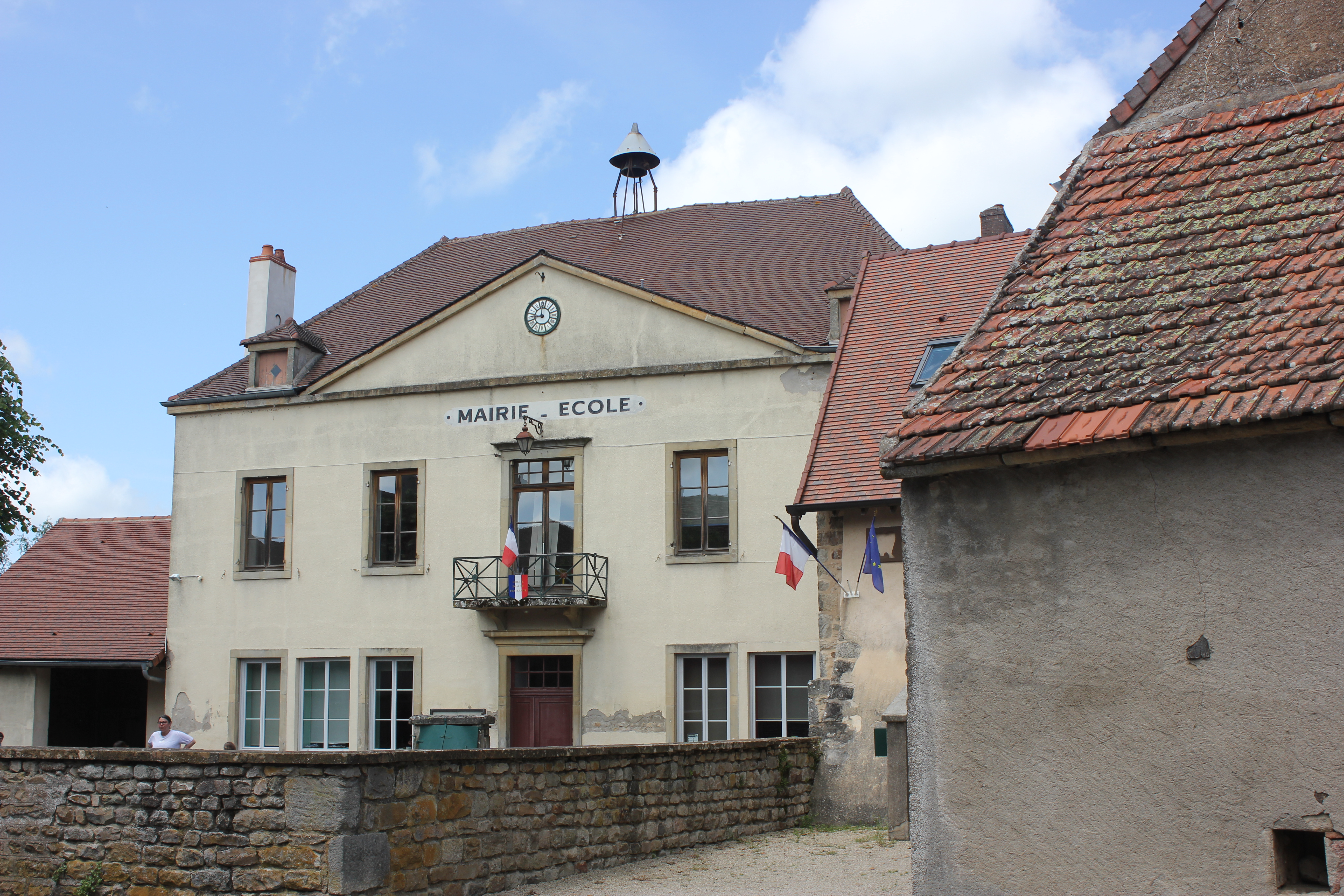 Mont-Saint-Vincent - school